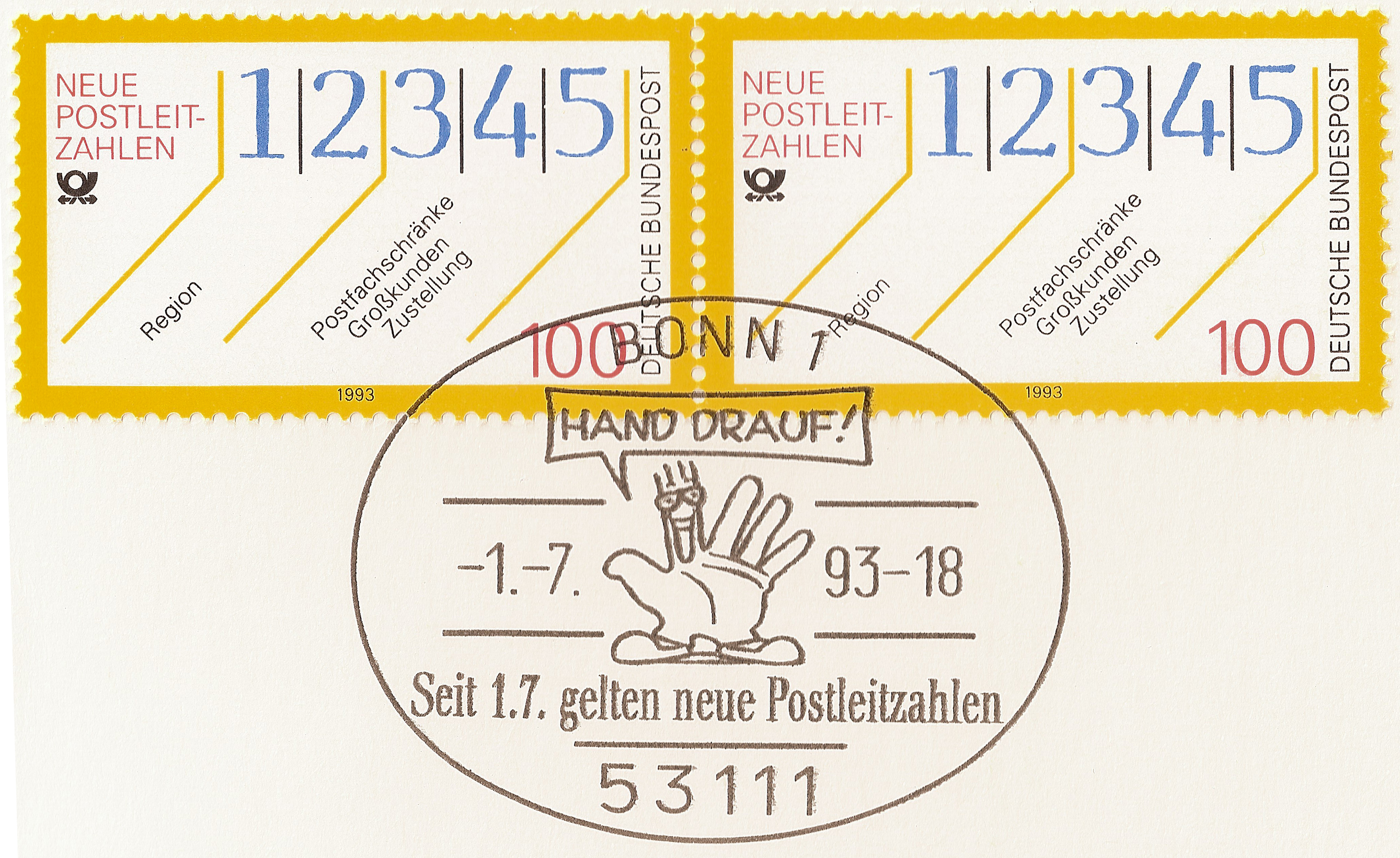 Stamp of Deutsche Post AG - new Postal codes in Germany 1993